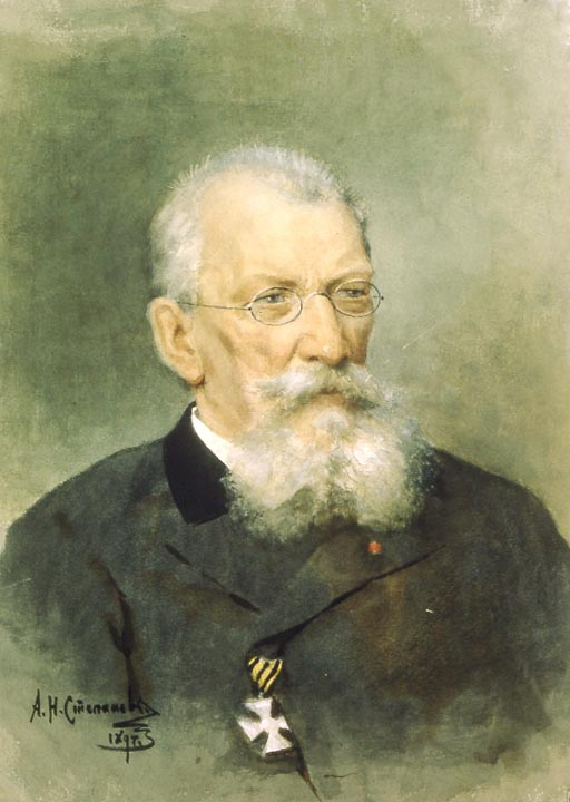 Portrait of the artist Pyotr P. Sokolov (1821-1899)